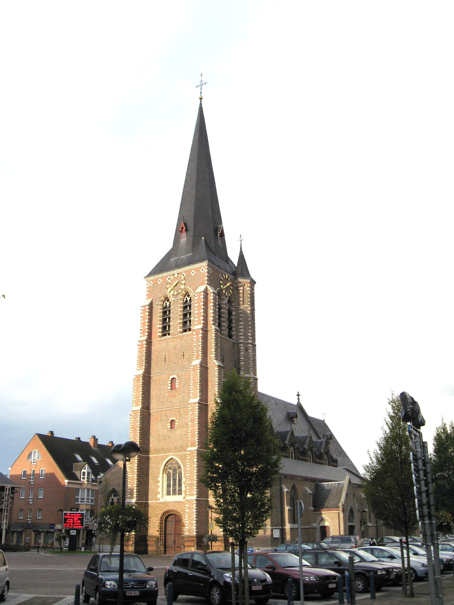 Church of Saint Martin in Tessenderlo, Limburg, Belgium